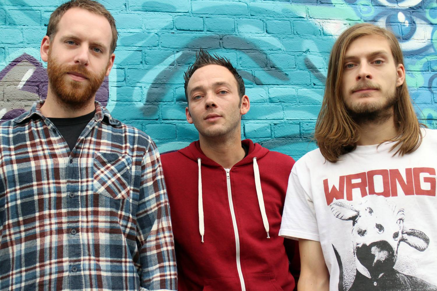 Antillectual